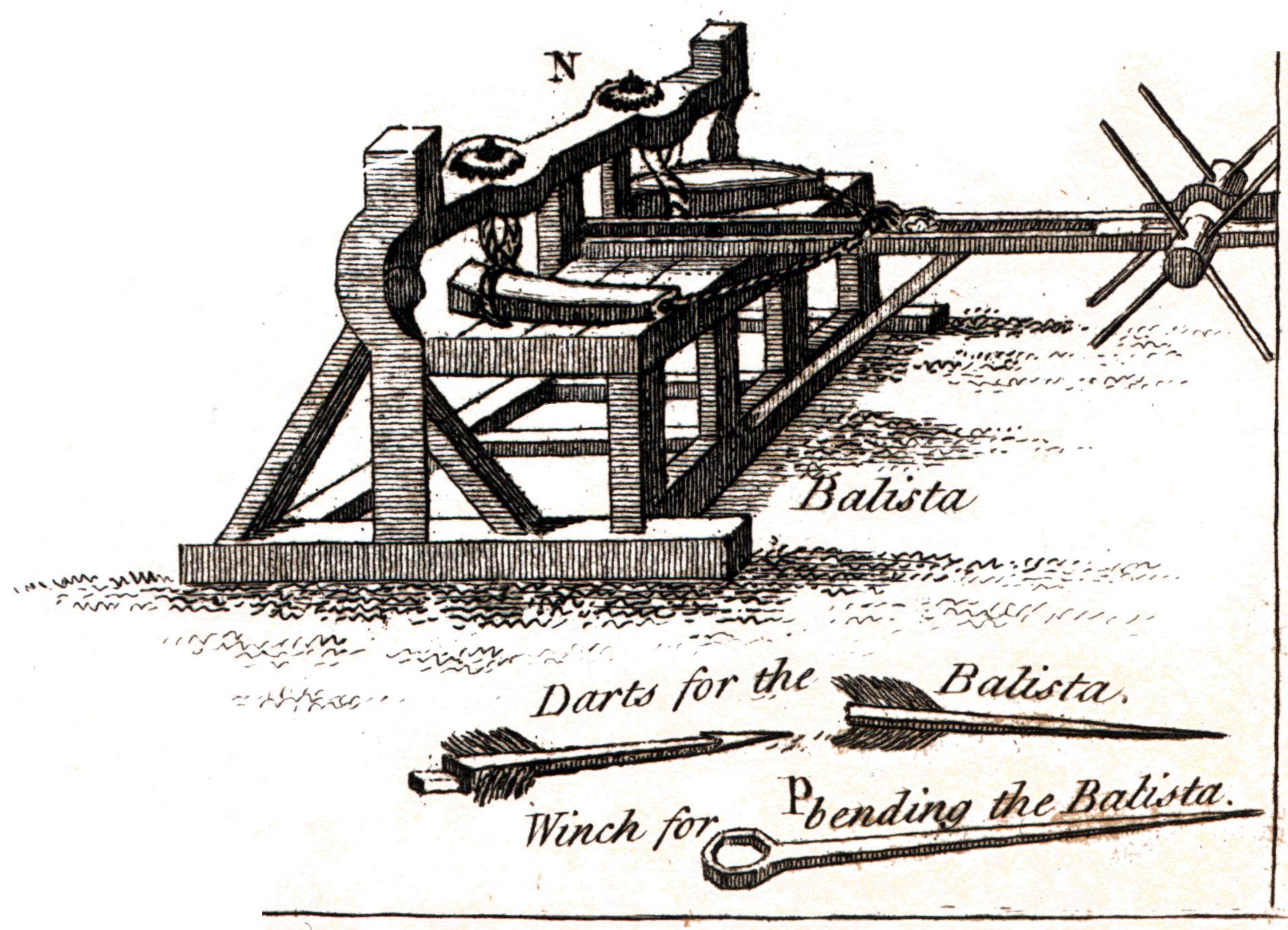 Ballista